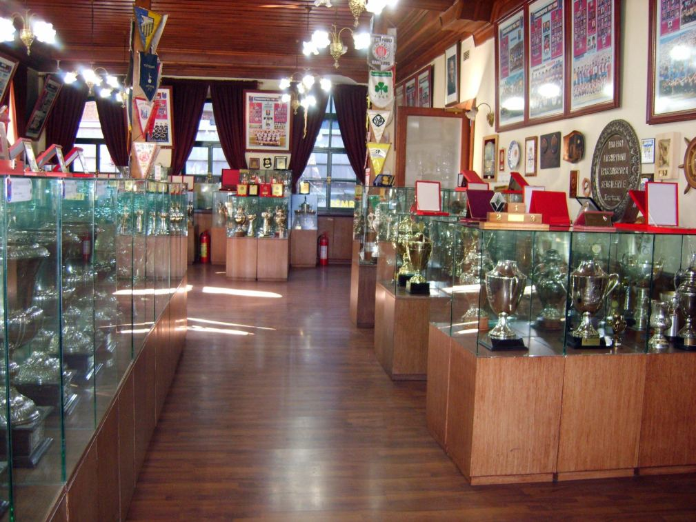 "Trabzonspor" trophy museum